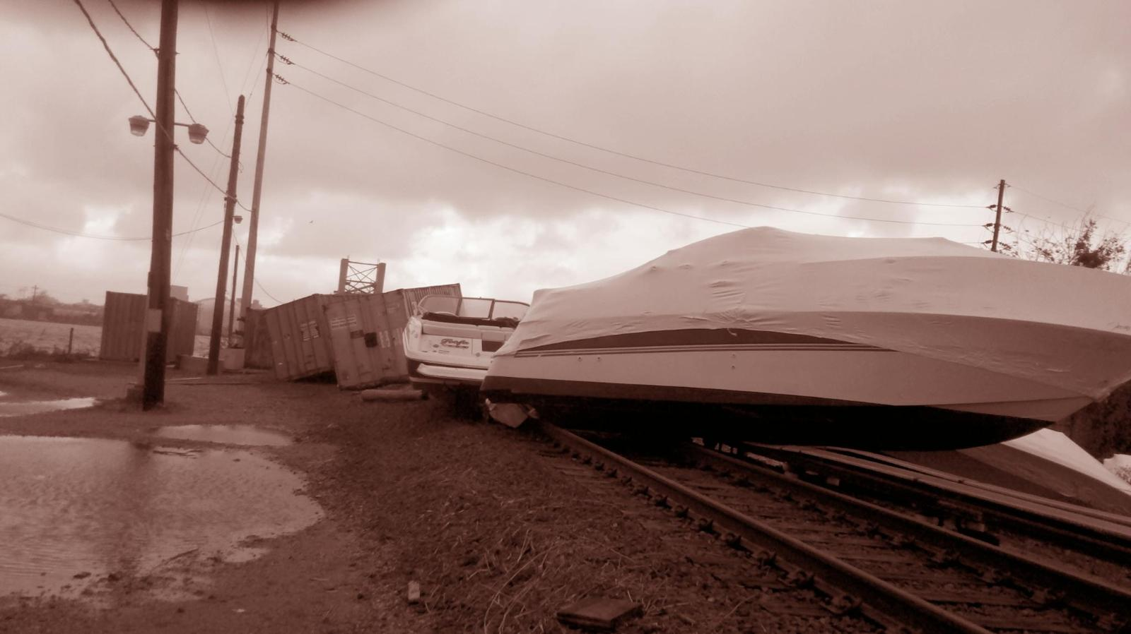 Boats on the track on the LIRR's Long Beach Branch near the bridge at Reynolds Channel in Island Park/Long Beach. Photo: MTA Long Island Rail Road / Bob Wissing.